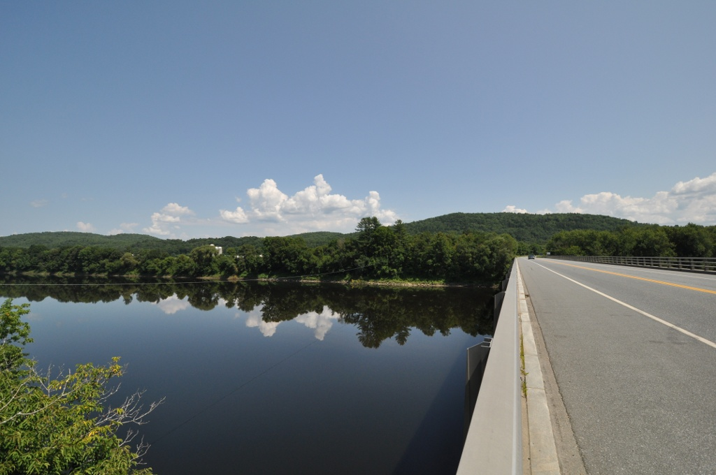 View of the Claremont, New Hampshire, bank of the Connecticut River, just north of the Ascutney bridge. The Hunter Archeological Site is in this area.